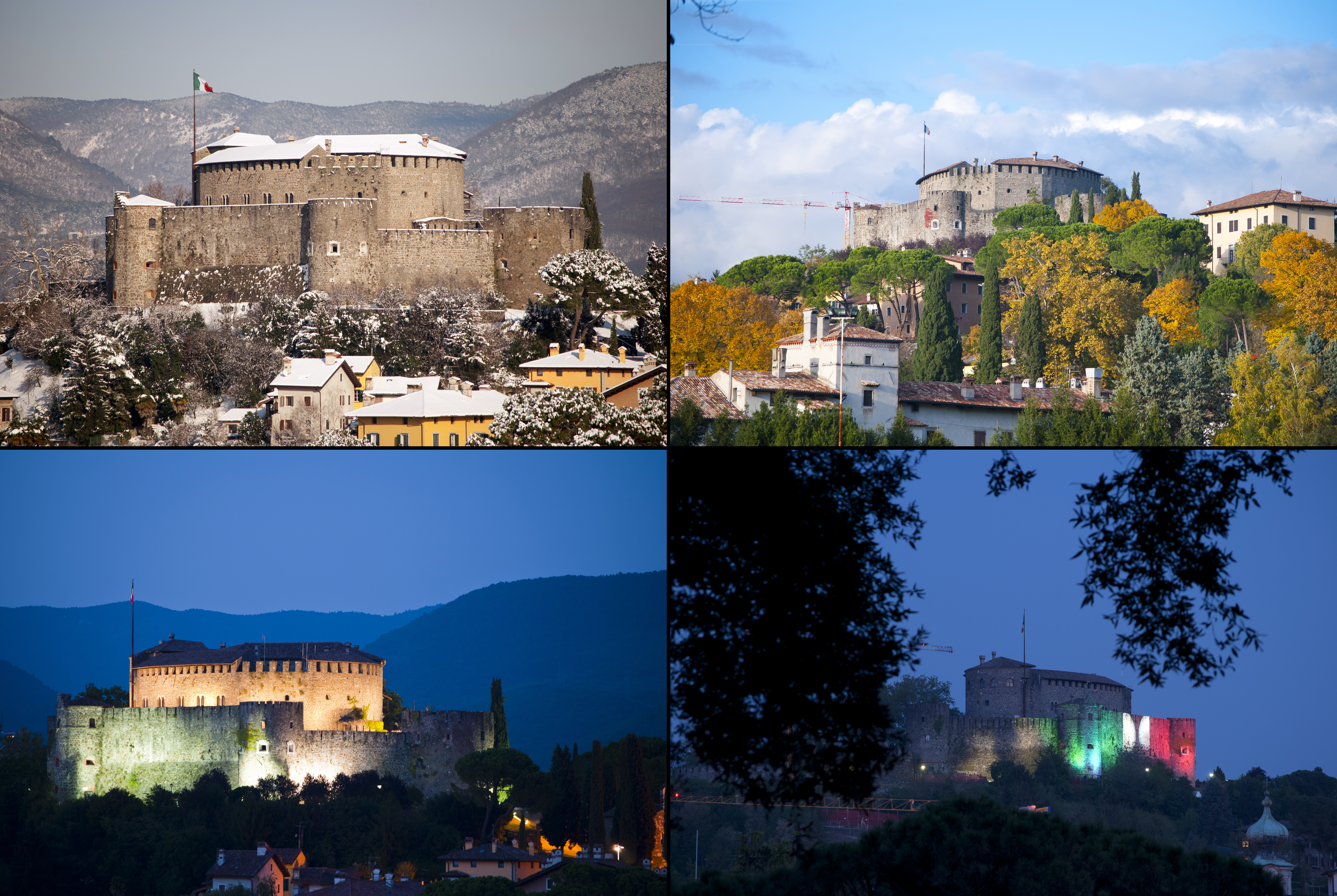 Gorizia Castle in autumn.